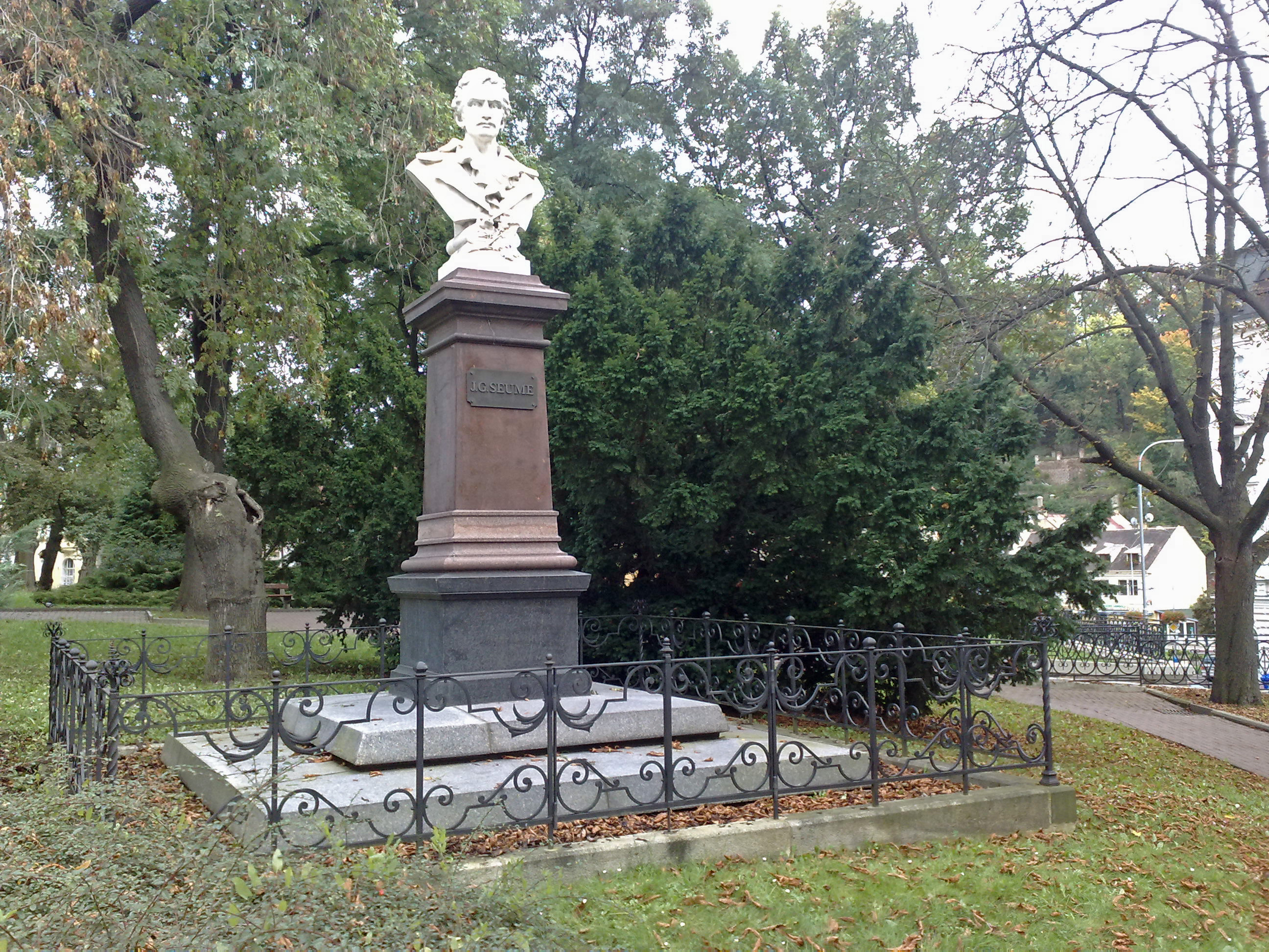 Memorial in Teplice for Johann Gottfried Seume. Seume died in Teplice 10 Juni 1810.